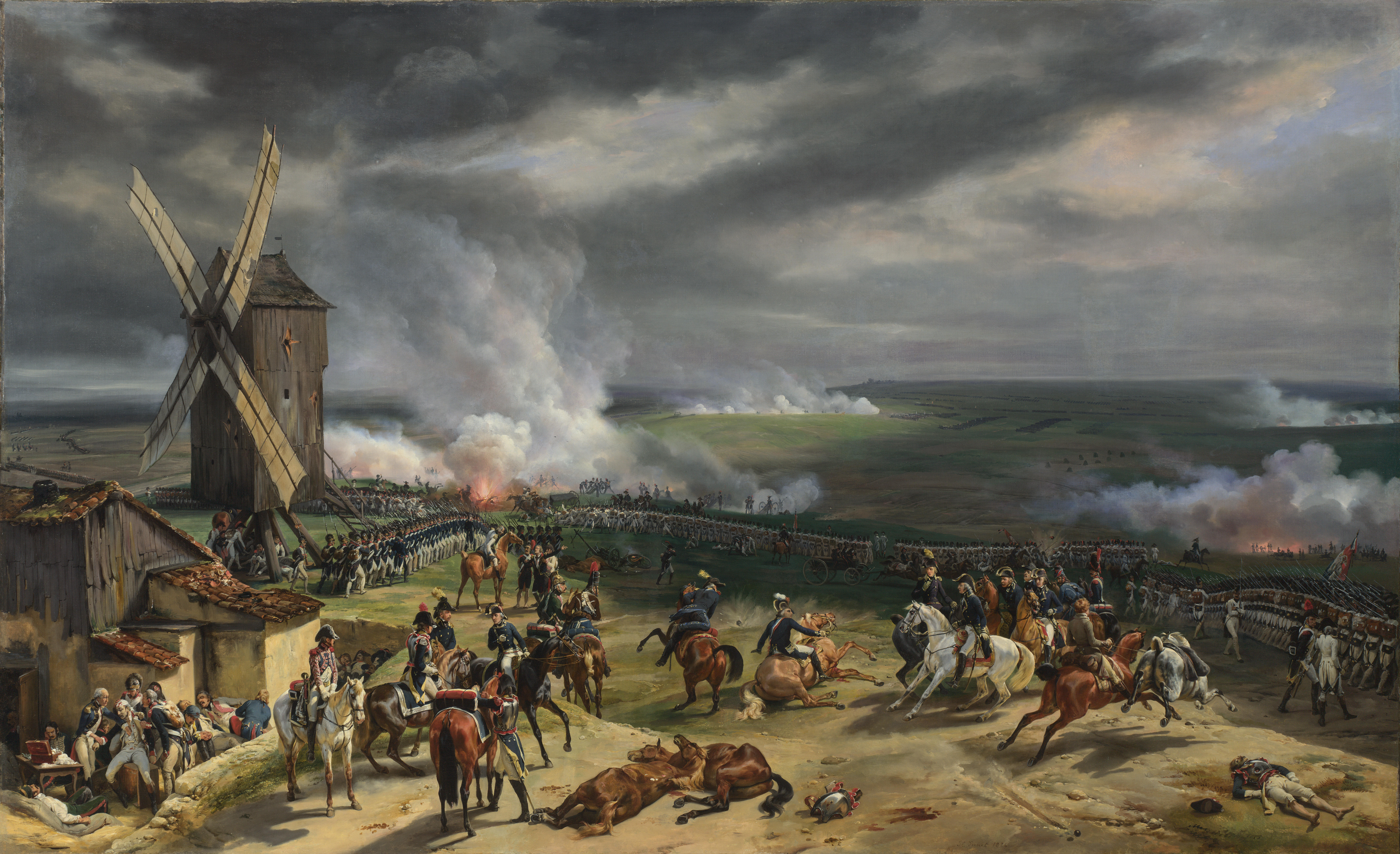 The Battle of Valmy, September 20th, 1792.